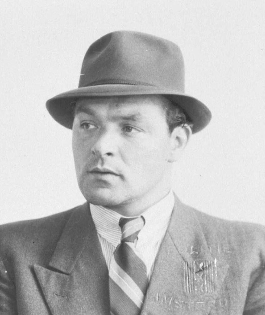 Photograph of Dries Riphagen. One of three mugshots, probably made after a police arrest in 1941.